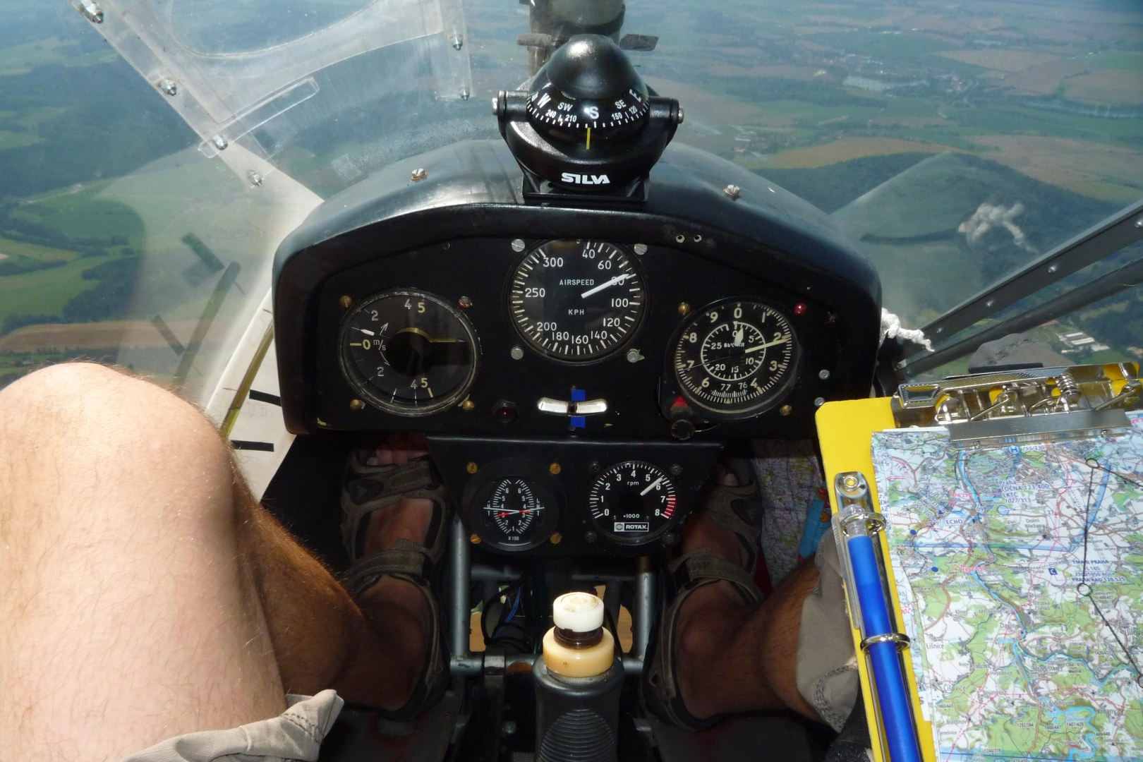 Letov LK-2 Sluka cabin and instrument panel during flight